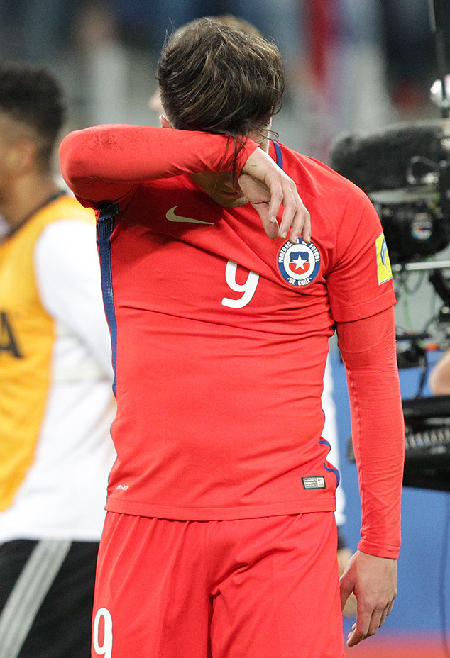 Chile - Germany, 2 Jul 2017